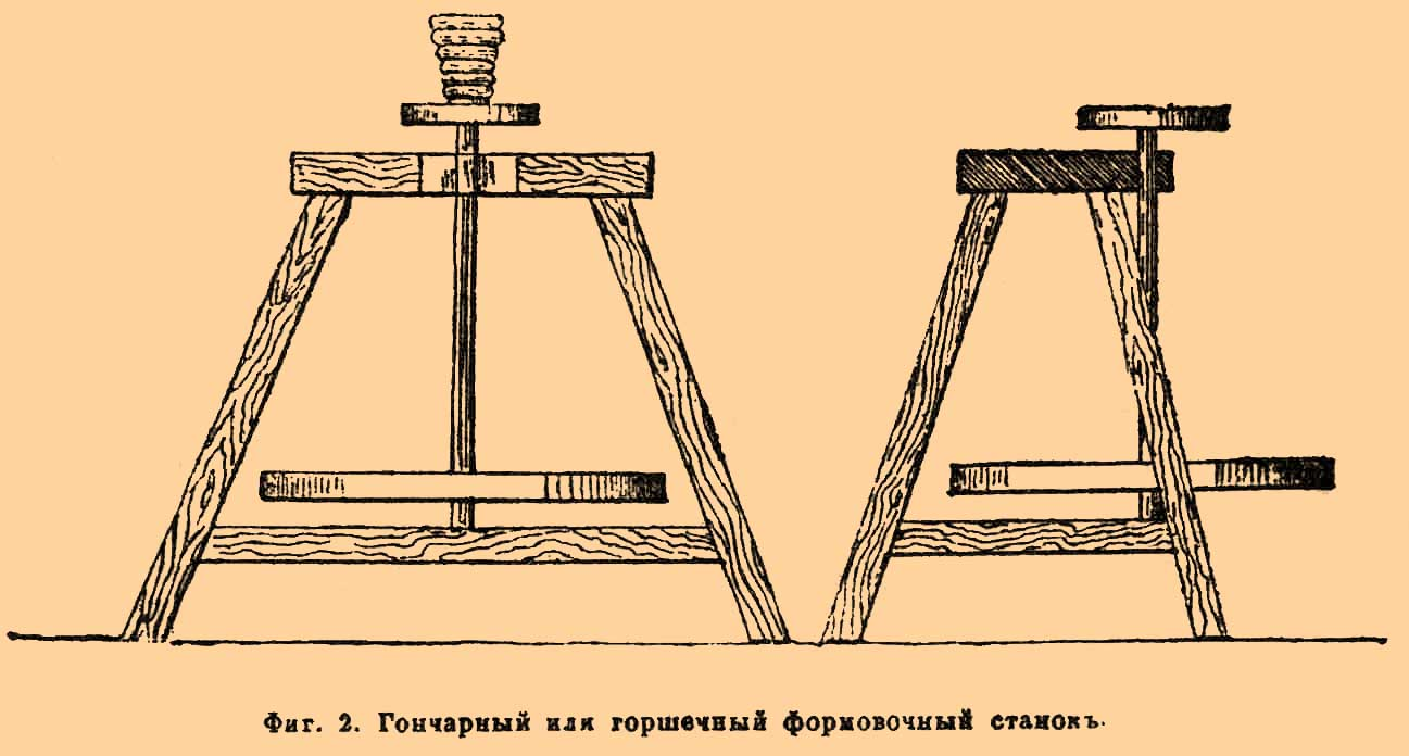 Illustration from Brockhaus and Efron Encyclopedic Dictionary (1890—1907)